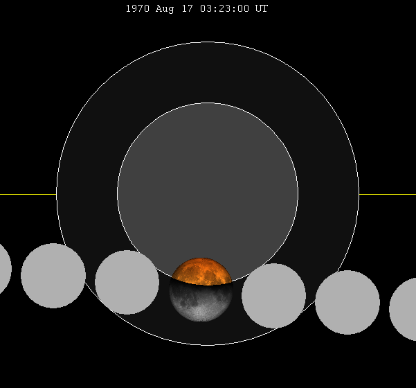 August 1970 lunar eclipse chart of moon's path through the earth's shadow. thumb